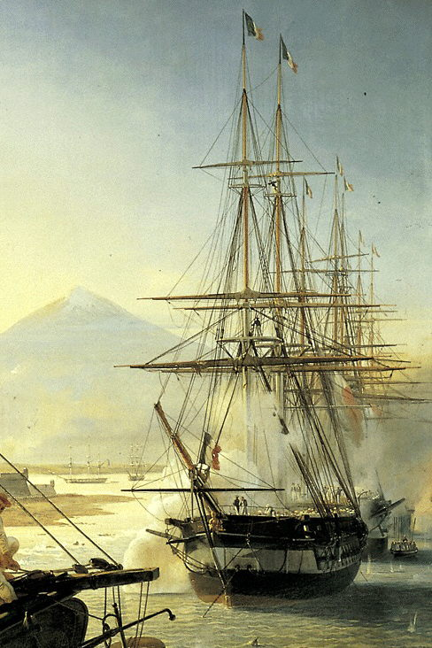 Épisode de l'expédition du Mexique en 1838 Scene from the Mexican Expedition in 1838, the Prince of Joinville on the poop of the corvette La Créole listens to the report from the vessel's Lieutenant, Penaud, and sees the explosion of the tower of the Fort of Saint-Jean d'Ulloa on 27 November 1838. The frigate Gloire can be seen in the background.